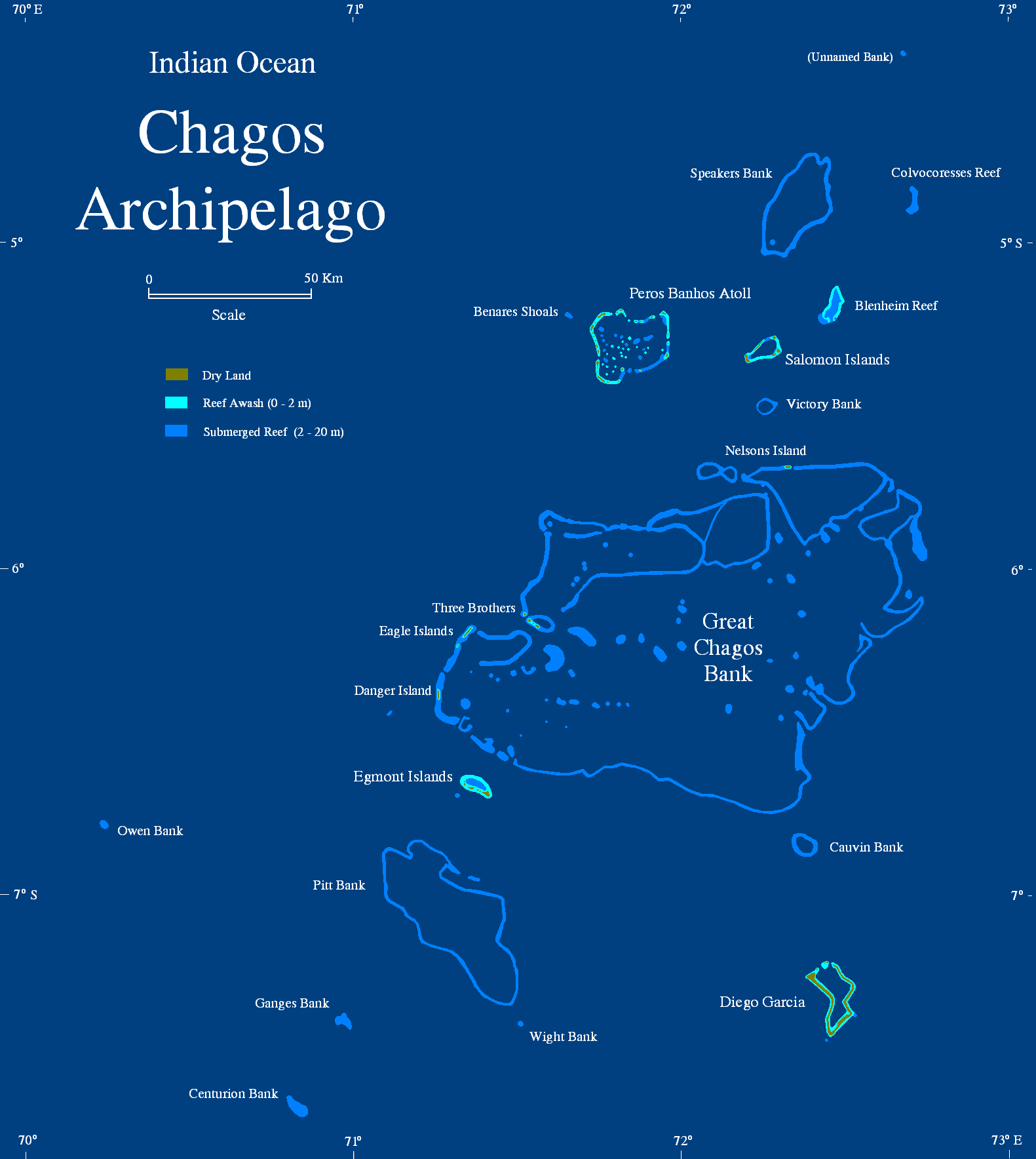 Map of Chagos Archipelago, BIOT